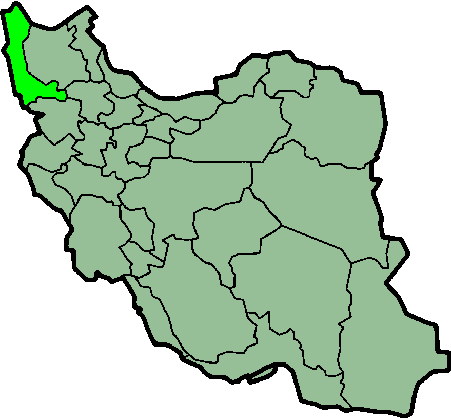 Province of West Azarbayjan, Iran